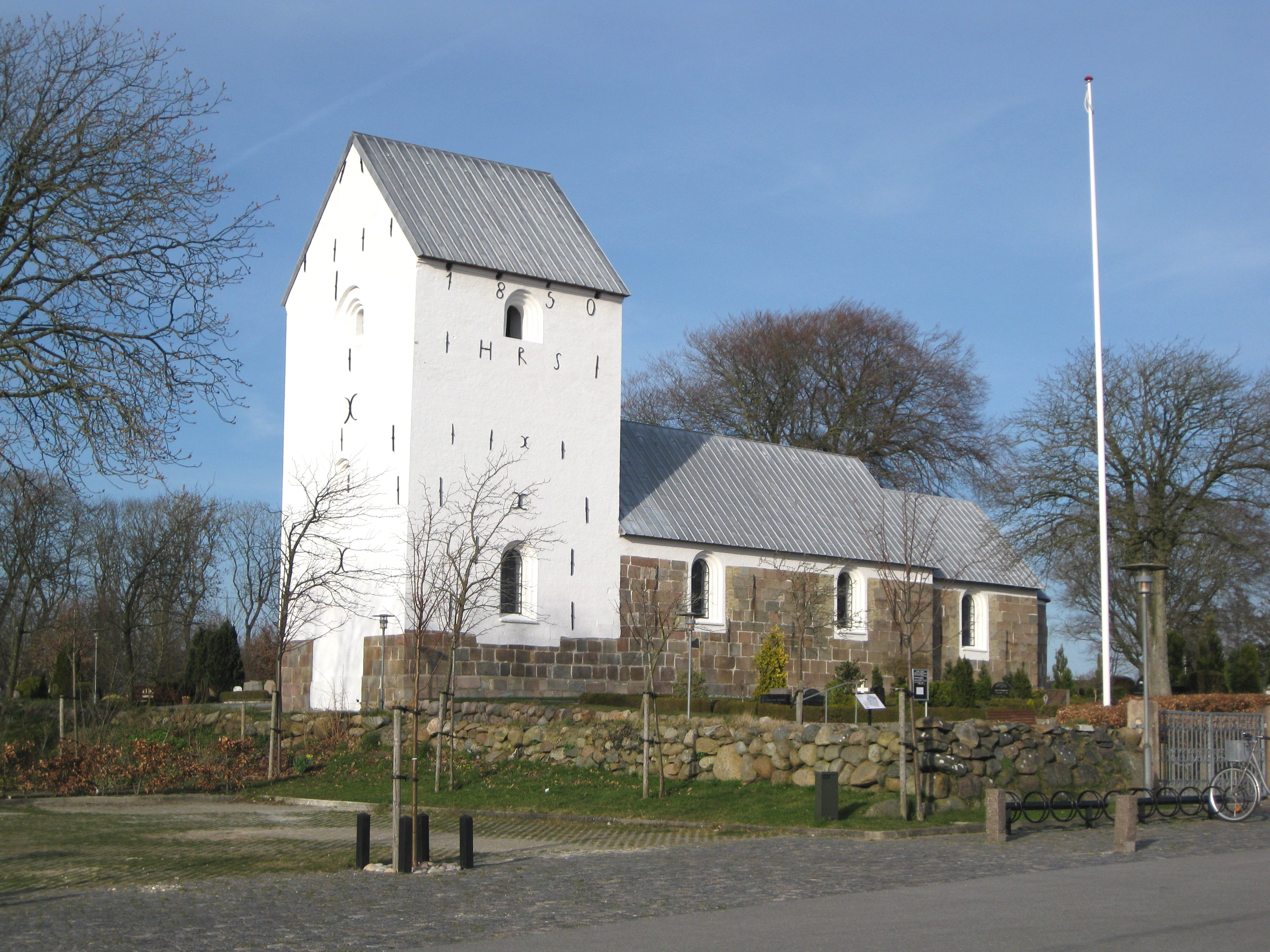 The church "Aaby Kirke" in the small town "Aabybro". The town is located in North Jutland, Denmark.